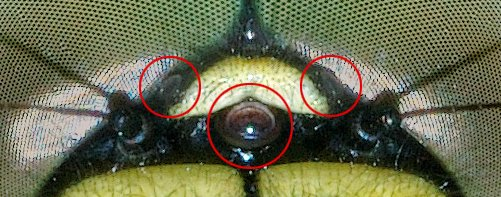 This image shows the three point eyes of a female dragonfly of the species Aeshna cyanea. The eye in the middle has a diameter of 430 µm.